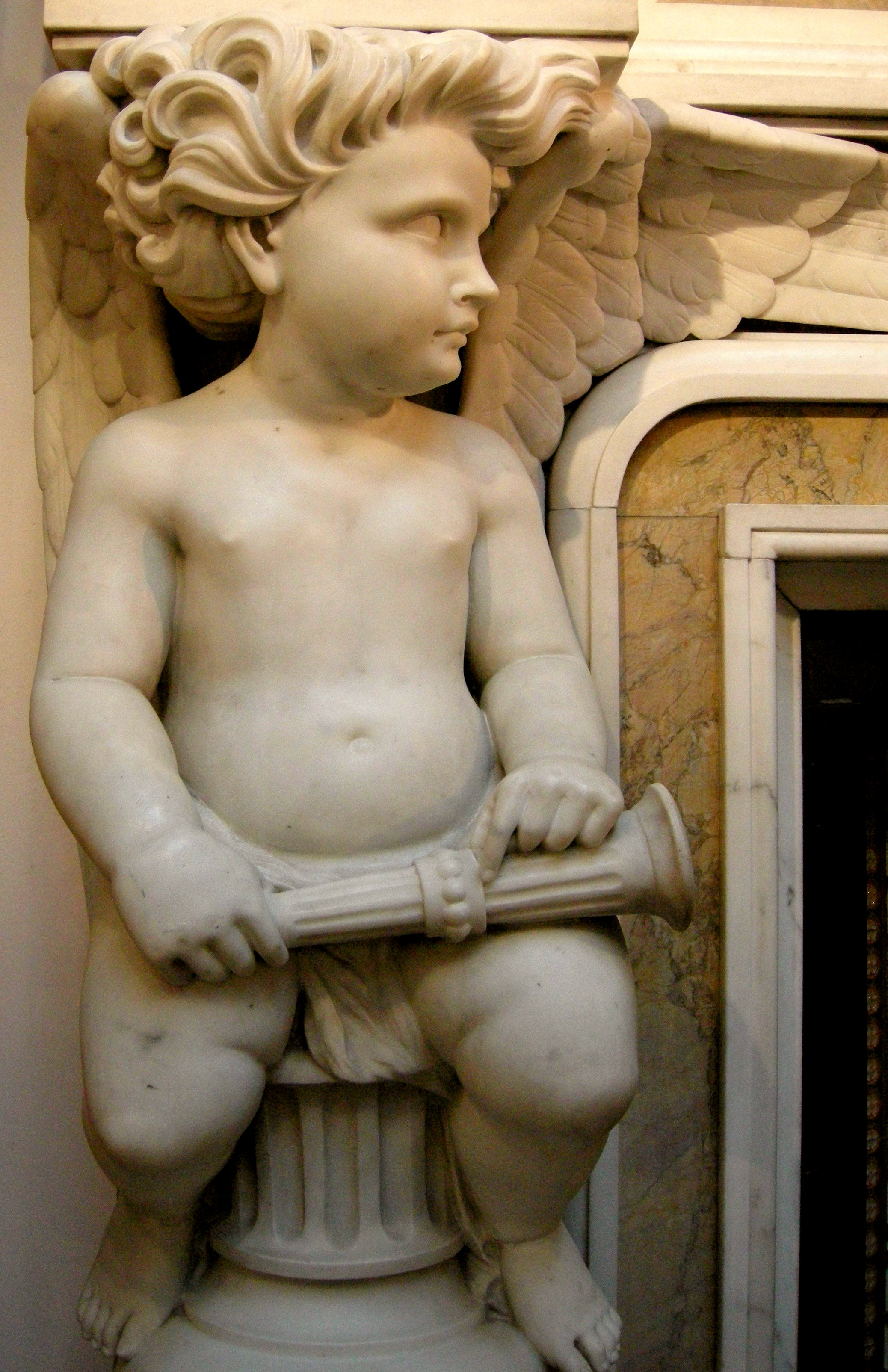 Bankfield Museum, Halifax, West Yorkshire, England. 53.43'.57".N; 1.51'.48".W.